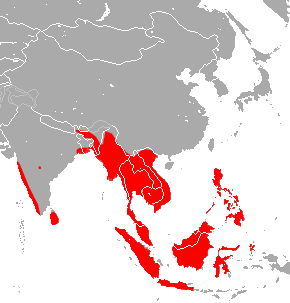 Lesser False Vampire (Megaderma spasma) range